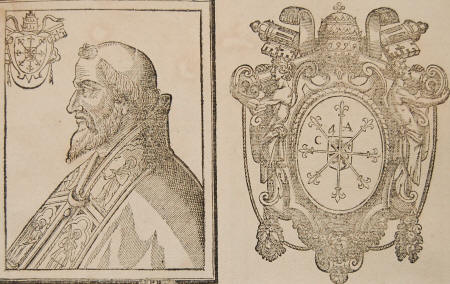 Pope Leo IX and his coat of arms